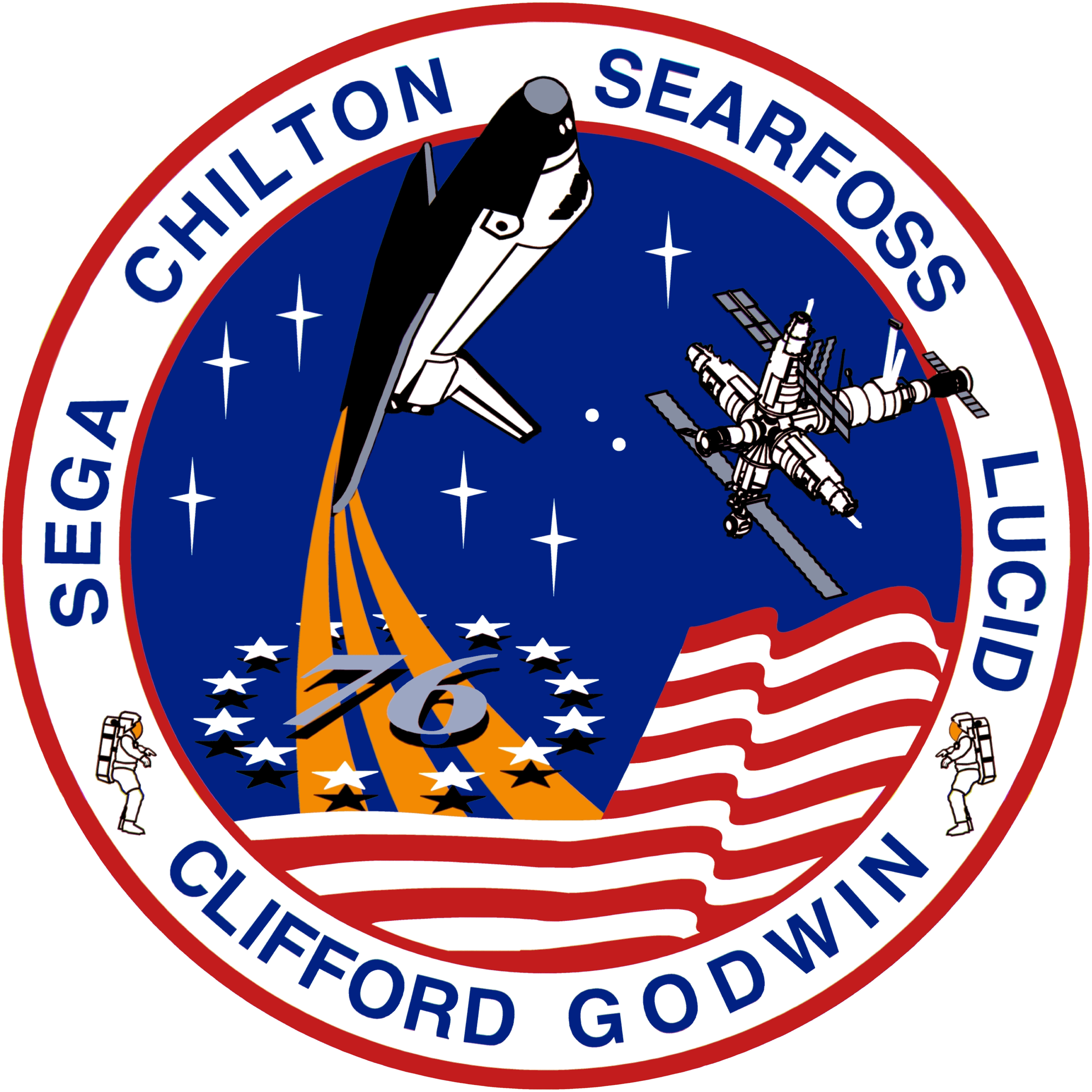 STS-76 Mission Insignia The STS-76 crew patch depicts the Space Shuttle Atlantis and Russia's Mir Space Station as the space ships prepare for a rendezvous and docking. The Spirit of 76, an era of new beginnings, is represented by the Space Shuttle rising through the circle of 13 stars in the Betsy Ross flag. STS-76 begins a new period of international cooperation in space exploration with the first Shuttle transport of a United States astronaut, Shannon W. Lucid, to the Mir Space Station for extended joint space research. Frontiers for future exploration are represented by stars and the planets. The three gold trails and the ring of stars in union form the astronaut logo. Two suited extravehicular activity (EVA) crew members in the outer ring represent the first EVA during Shuttle-Mir docked operations. The EVA objectives were to install science experiments on the Mir exterior and to develop procedures for future EVA's on the International Space Station. The surnames of the crew members encircle the patch: Kevin P. Chilton, mission commander; Richard A. Searfoss, pilot; Ronald M. Sega, Michael R. ( Rich) Clifford, Linda M. Godwin and Lucid, all mission specialists. This patch was designed by Brandon Clifford, age 12, and the crew members of STS-76.